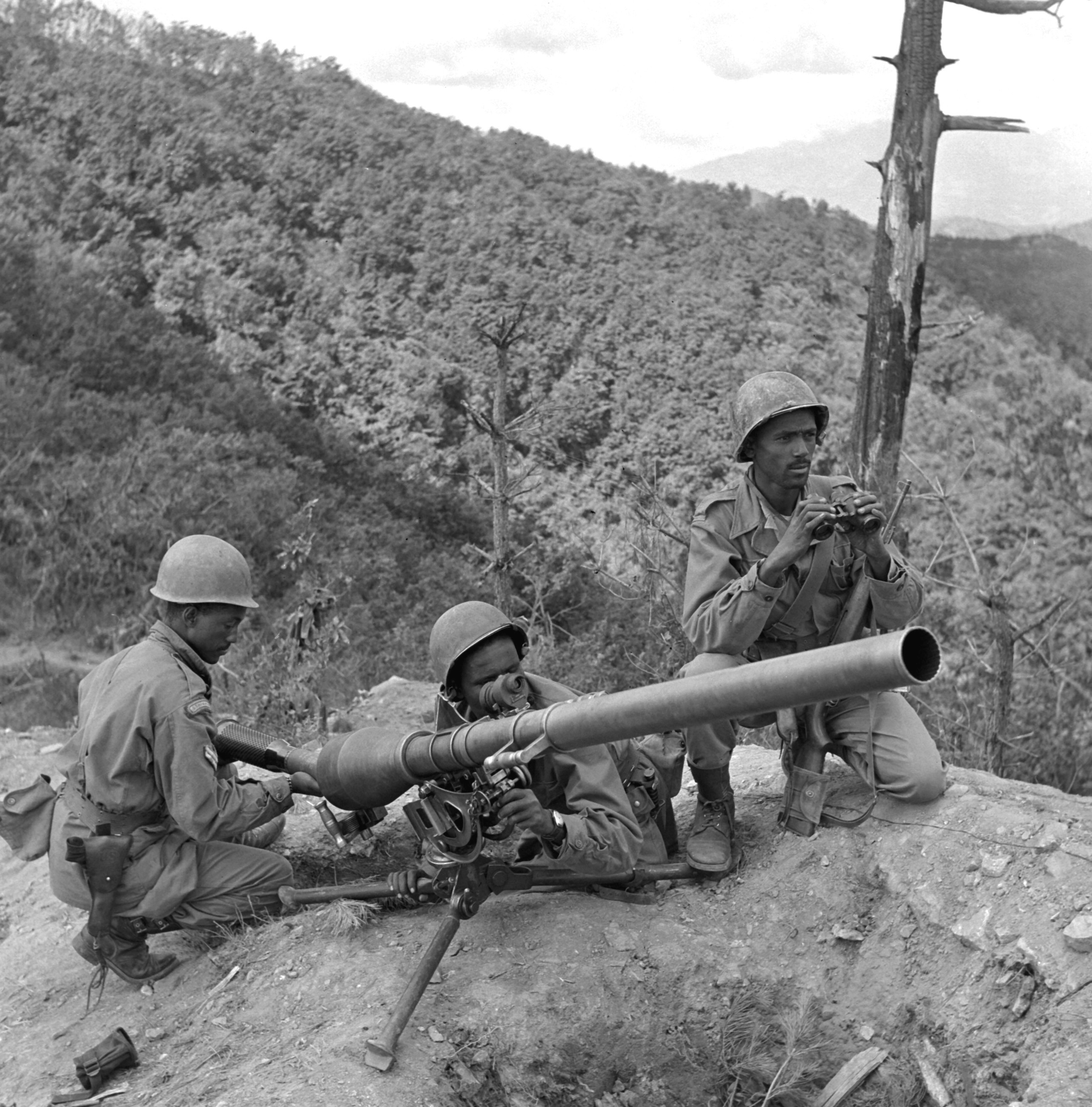 Ethiopia was the first nation in Africa to contribute a complete unit of ground troops to the UN Korean command. Three Ethiopian gunners from Addis Ababa preparing to fire a 75mm recoil-less rifle are, from left to right: Corporal Alema Welde, Corporal Chanllo Bala and Sergeant Major Bogale Weldeynse. Air and Space Museum #: 51-12883-306-PS-D (Released to Public)